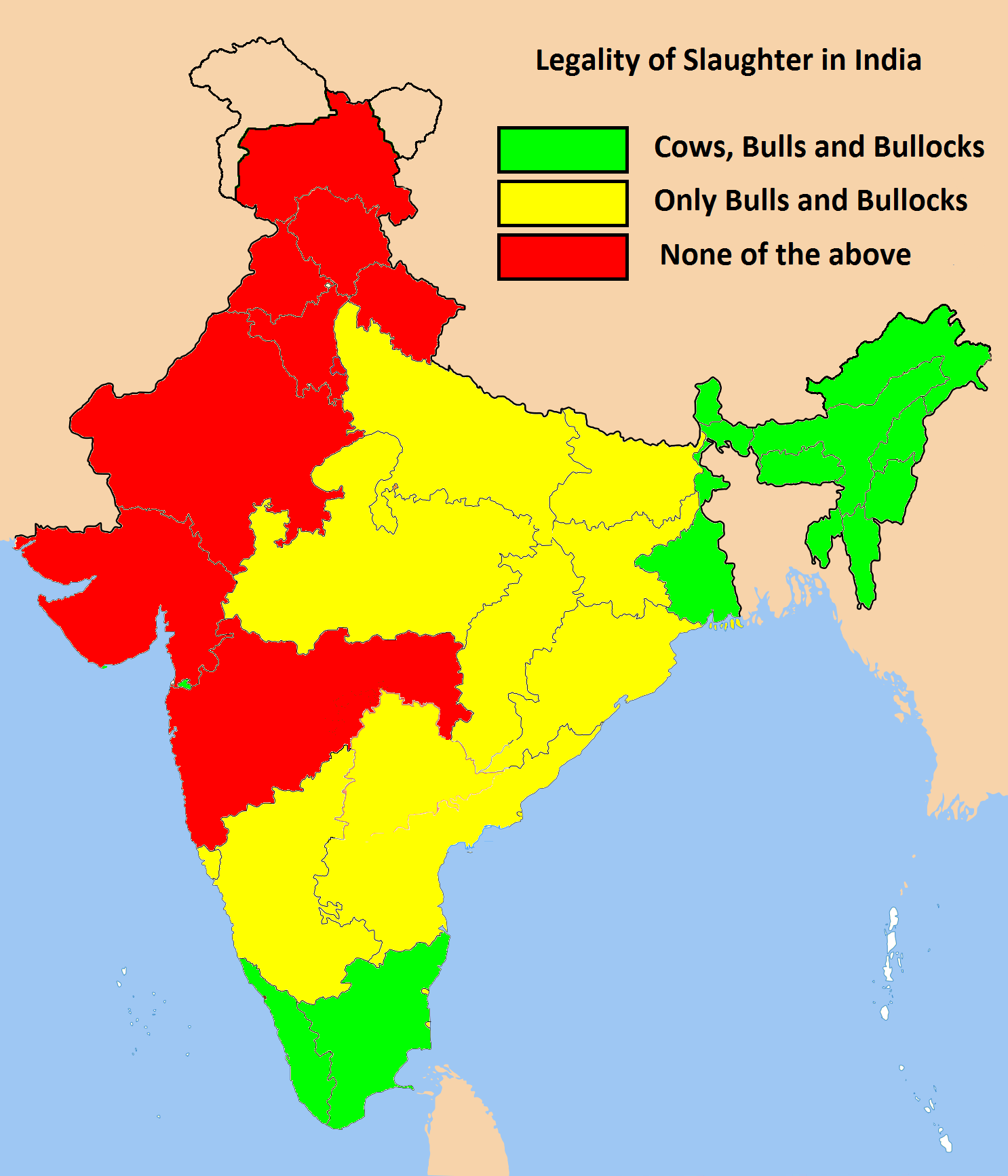 Cow Slaughter in India Green - Cows, Bulls and Bullocks are allowed to be slaughtered Yellow - Bulls and Bullocks are allowed Red - None of the above are allowed some states require "fit for slaughter" certification from the authoritites